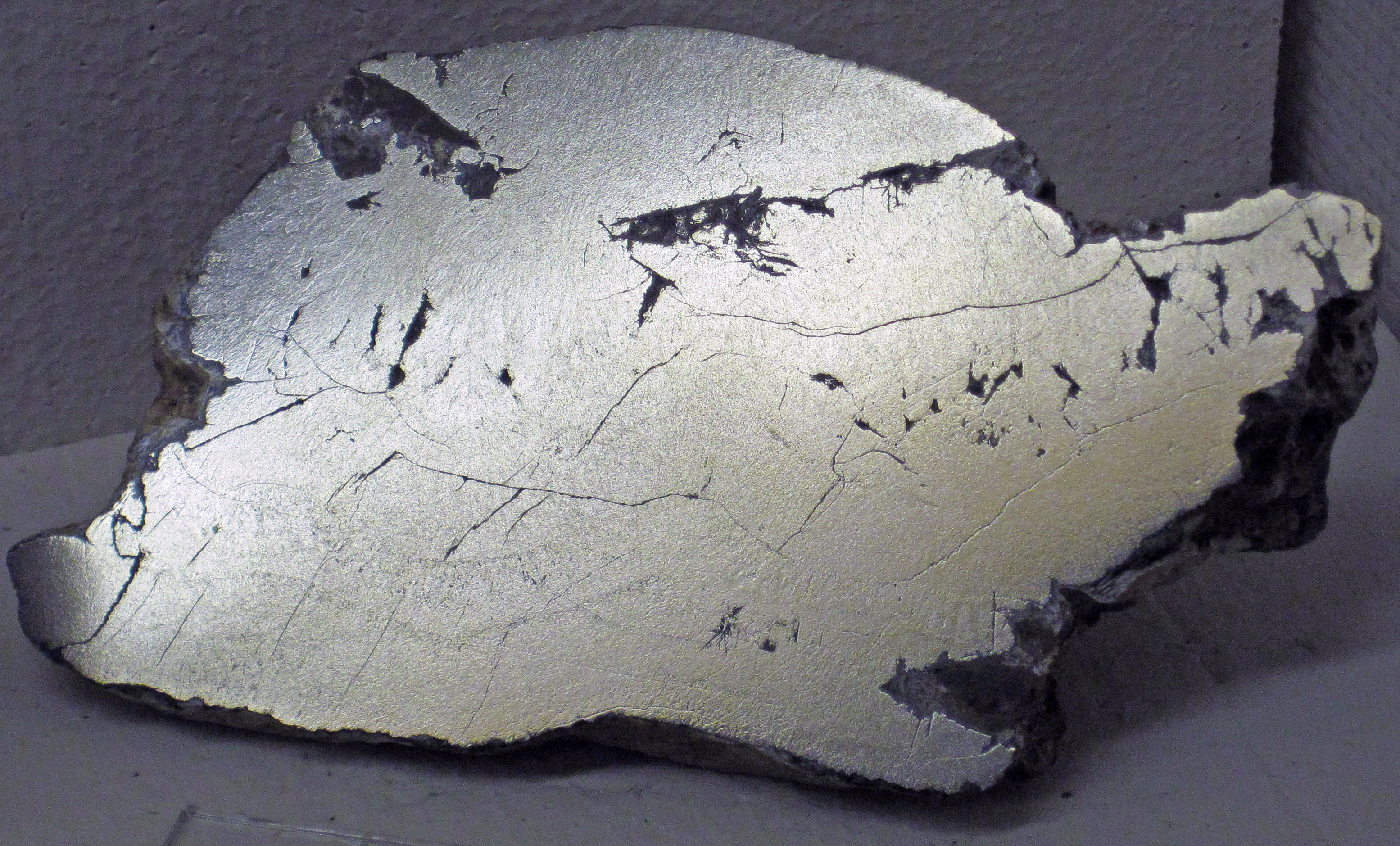 Antimony from California, USA. (public display, South Dakota School of Mines and Technology Museum of Geology, Rapid City, South Dakota, USA) A mineral is a naturally-occurring, solid, inorganic, crystalline substrance having a fairly definite chemical composition and having fairly definite physical properties. At its simplest, a mineral is a naturally-occurring solid chemical. Currently, there are over 4900 named and described minerals - about 200 of them are common and about 20 of them are very common. Mineral classification is based on anion chemistry. Major categories of minerals are: elements, sulfides, oxides, halides, carbonates, sulfates, phosphates, and silicates. Elements are fundamental substances of matter - matter that is composed of the same types of atoms. At present, 118 elements are known (four of them are still unnamed). Of these, 98 occur naturally on Earth (hydrogen to californium). Most of these occur in rocks & minerals, although some occur in very small, trace amounts. Only some elements occur in their native elemental state as minerals. To find a native element in nature, it must be relatively non-reactive and there must be some concentration process. Metallic, semimetallic (metalloid), and nonmetallic elements are known in their native state as minerals. The semimetal/metalloid antimony (Sb) is not common in its native state. It has a metallic luster, silvery-gray color, is somewhat soft (H=3 to 3.5), and is moderately heavy for its size. Other semimetals that occur as native elements are arsenic (As) and bismuth (Bi). The semimetals/metalloids resemble metals in luster, but they break along fractures - they’re brittle. True metals are malleable. Locality: Kern County, California, USA